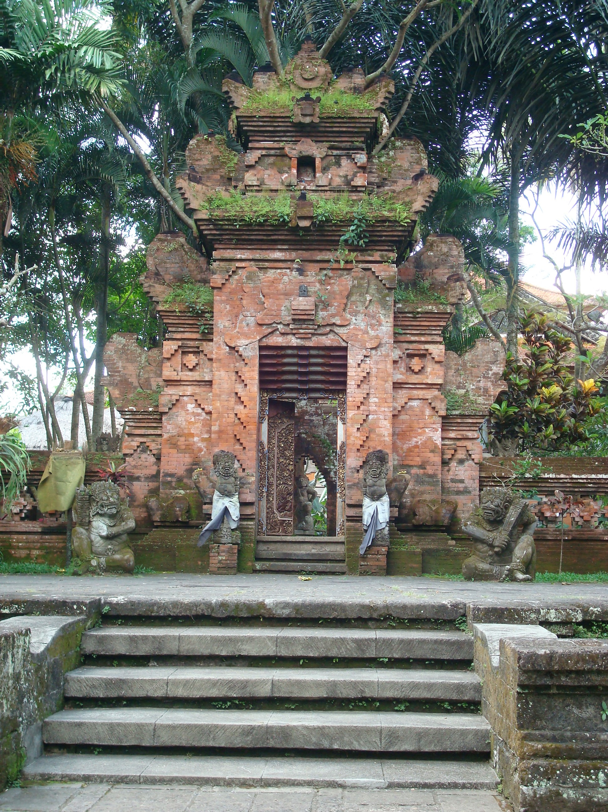 Entrance to Agung Rai Museum of Art in Ubud